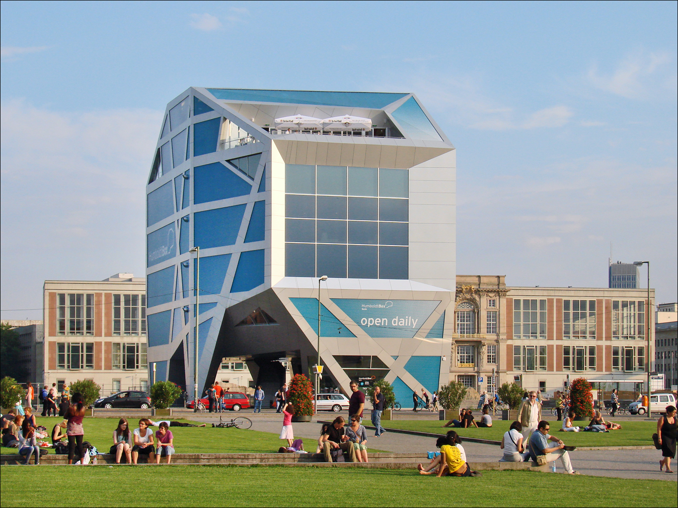 The Humboldt-Box building, Berlin, in Summer.